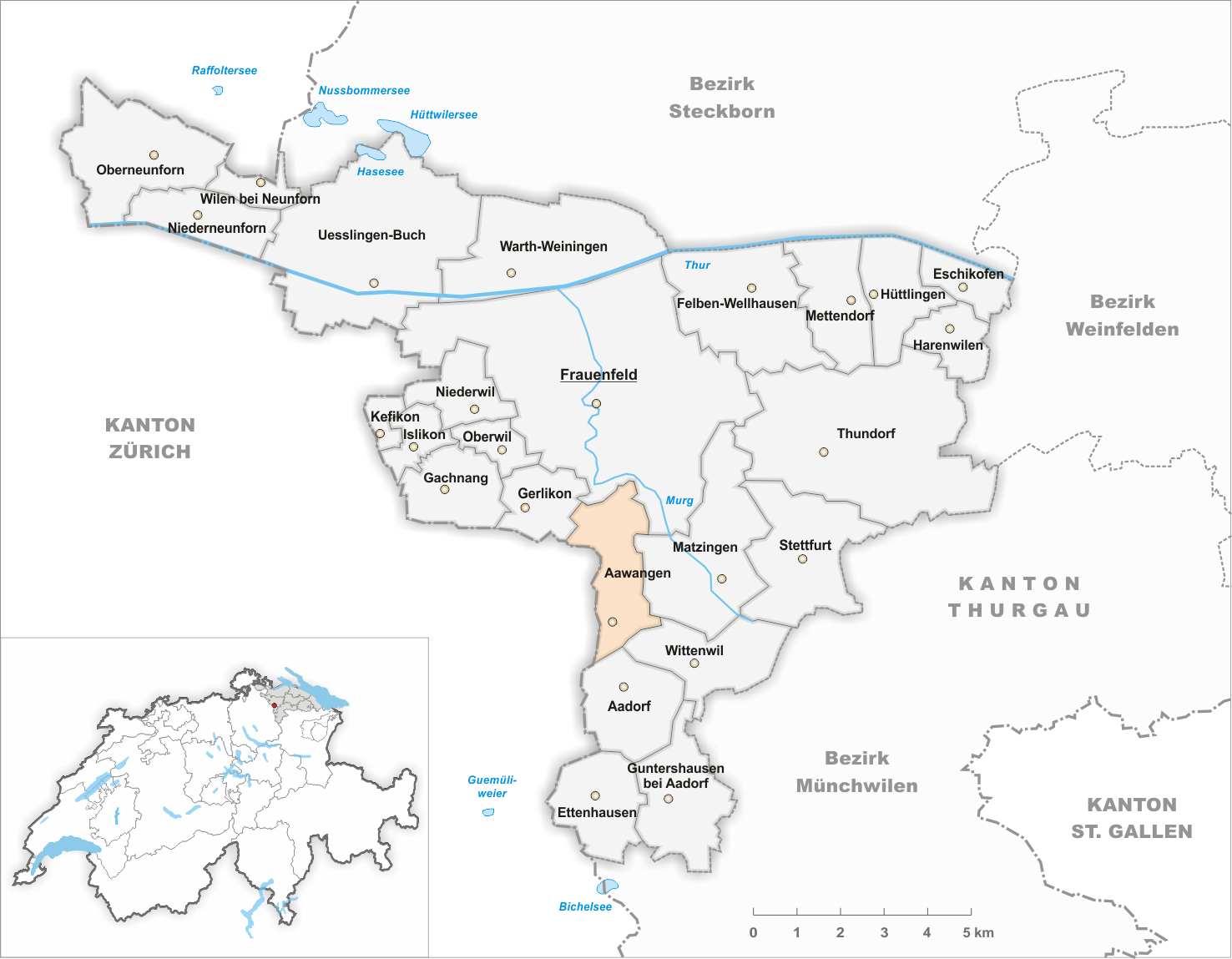 Municipality Aawangen